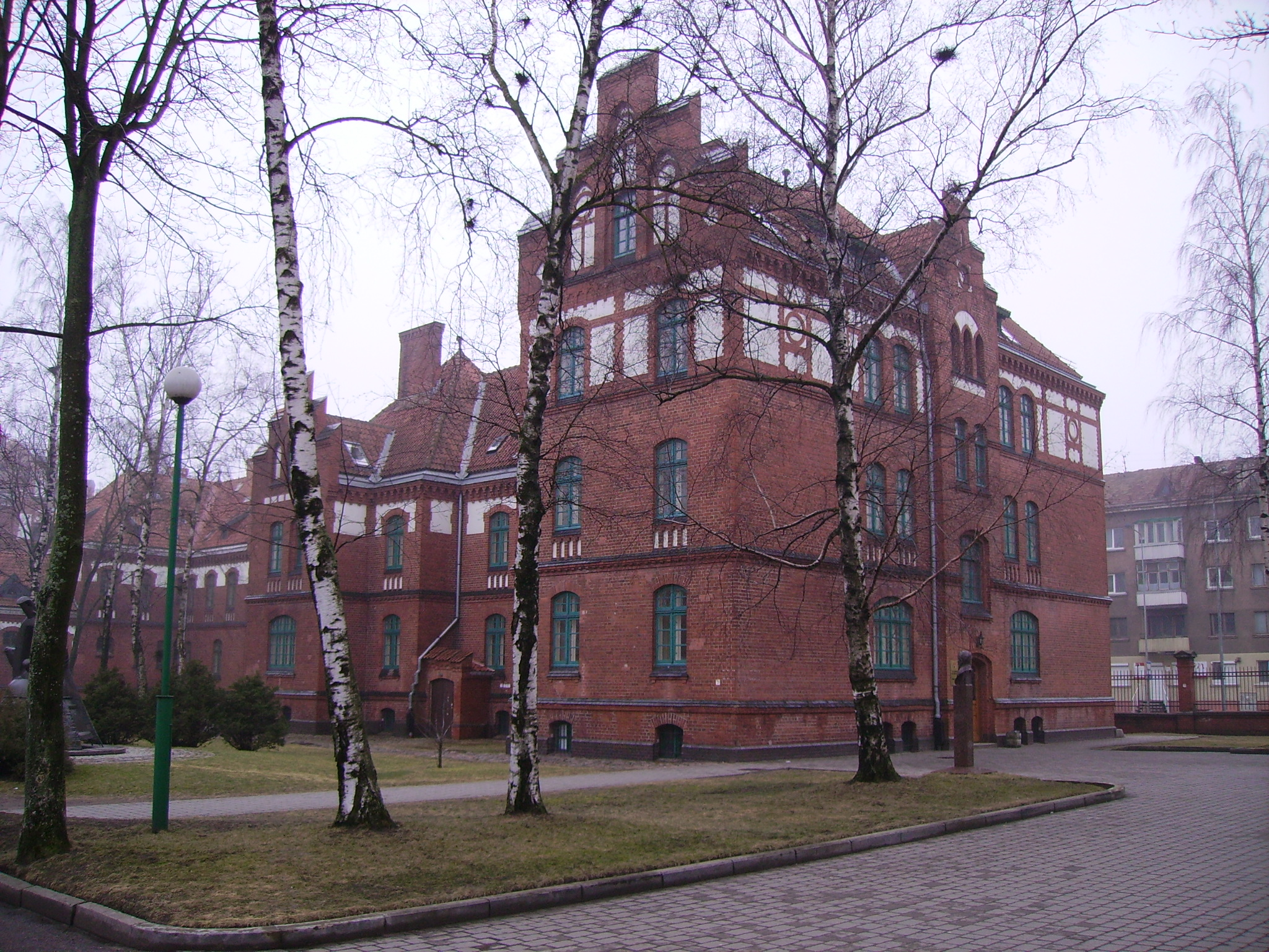 Historic buildings on the campus of Klaipėda University